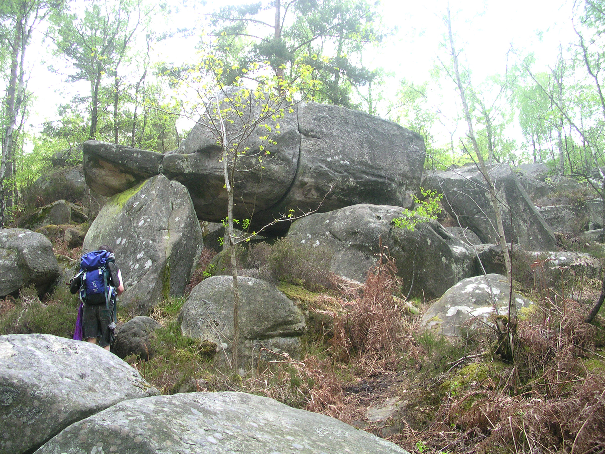 Block near Apeemont Valley in the Fontainebleau forest (Barbizon Auteur/Author Romary mai/May 2006